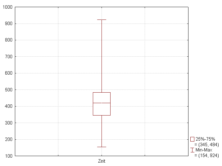 Plot of a box-plot with whiskers to Min and Max of the Data. The plot was created with Statistica v.8.0